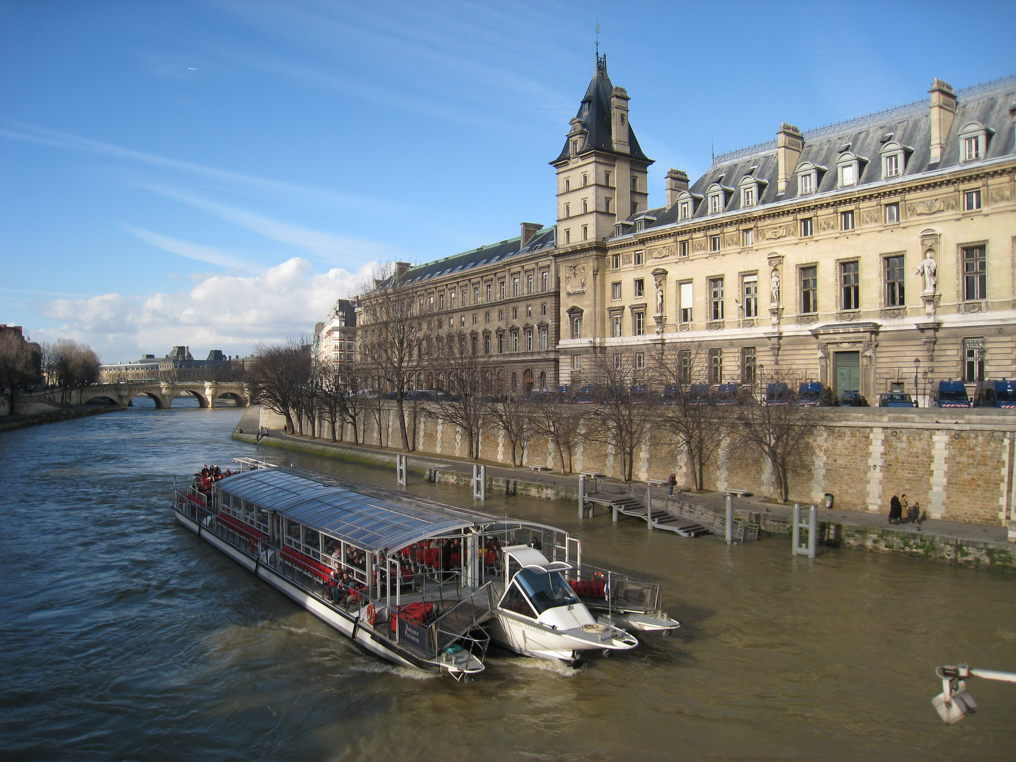 Seine view with tourist boat, Paris, France.